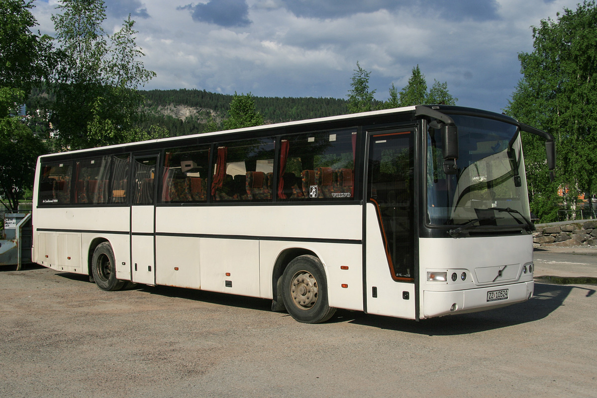 Volvo B10-400 K/1040, built by Volvo Busse Deutschland in Heilbronn (former Drögmöller Karosserien), based on the Carrus Vega bodywork and the Volvo B10B chassis. Between 2008 and 2014, it was used as a driving school bus in Drammen.